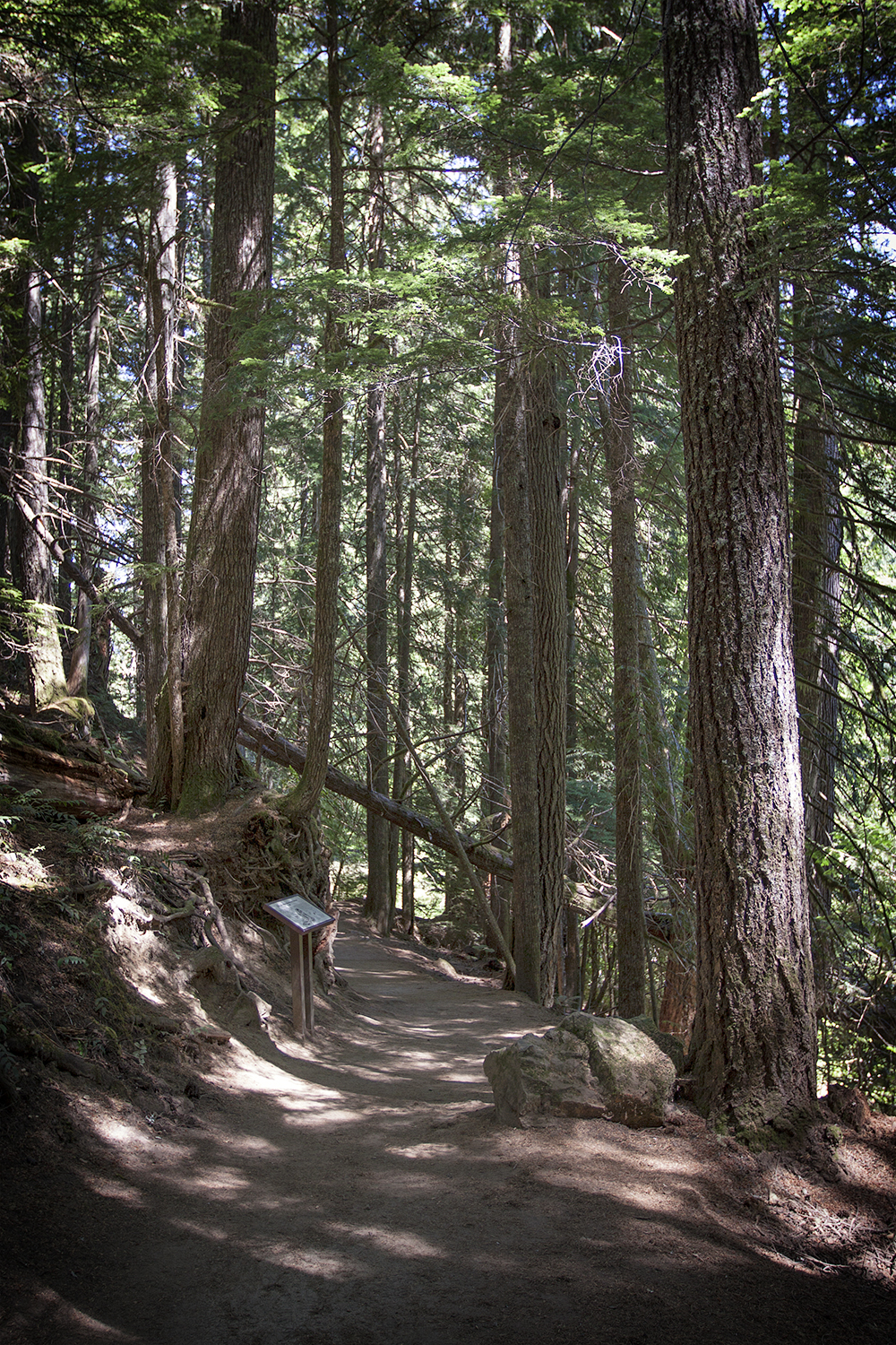 Grove of the Patriarchs Nature Trail (Mount Rainier National Park)